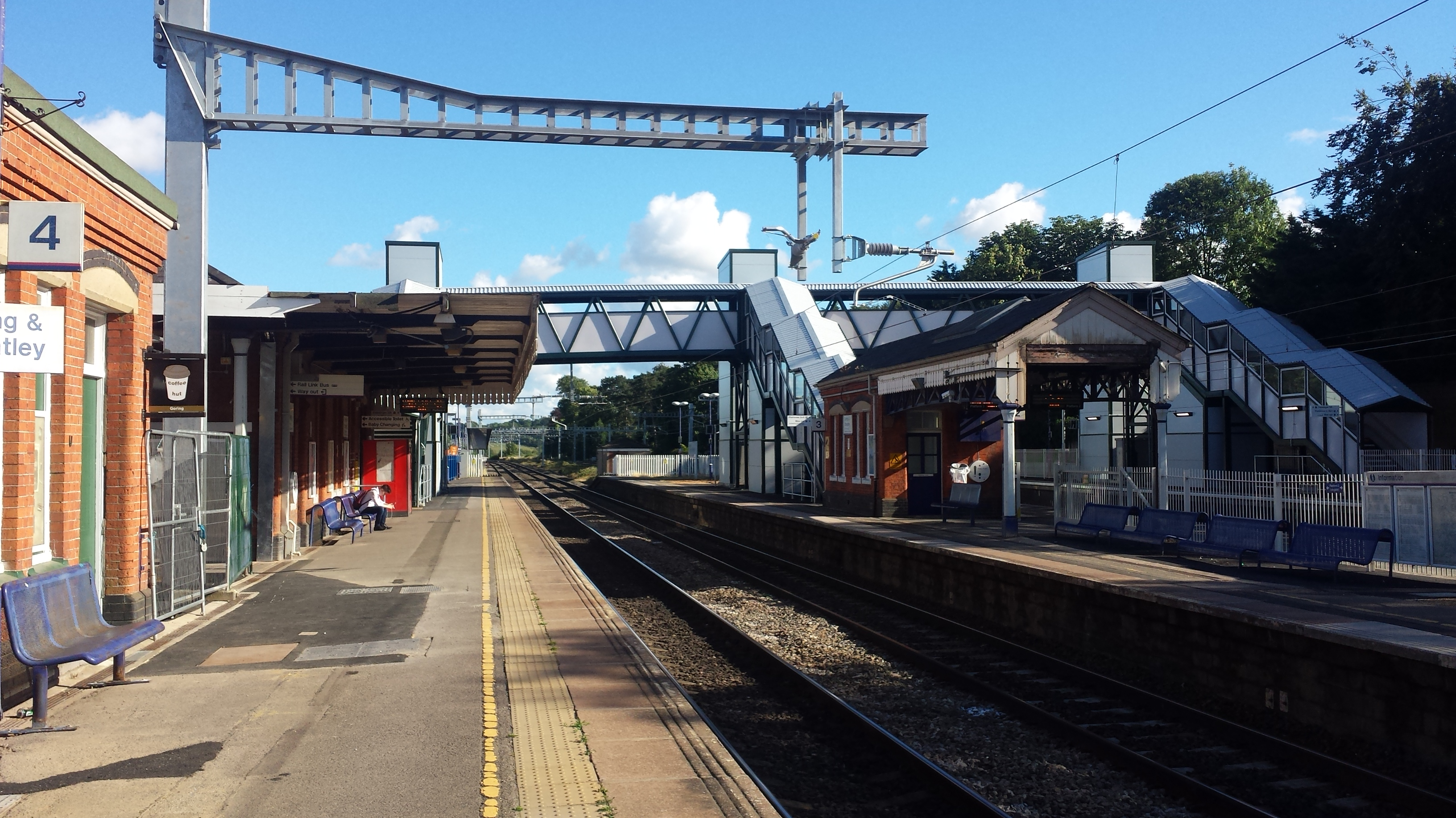 Goring and Streatley railway station after completion of the new bridge and removal of the temporary bridge. Electrification now ongoing.